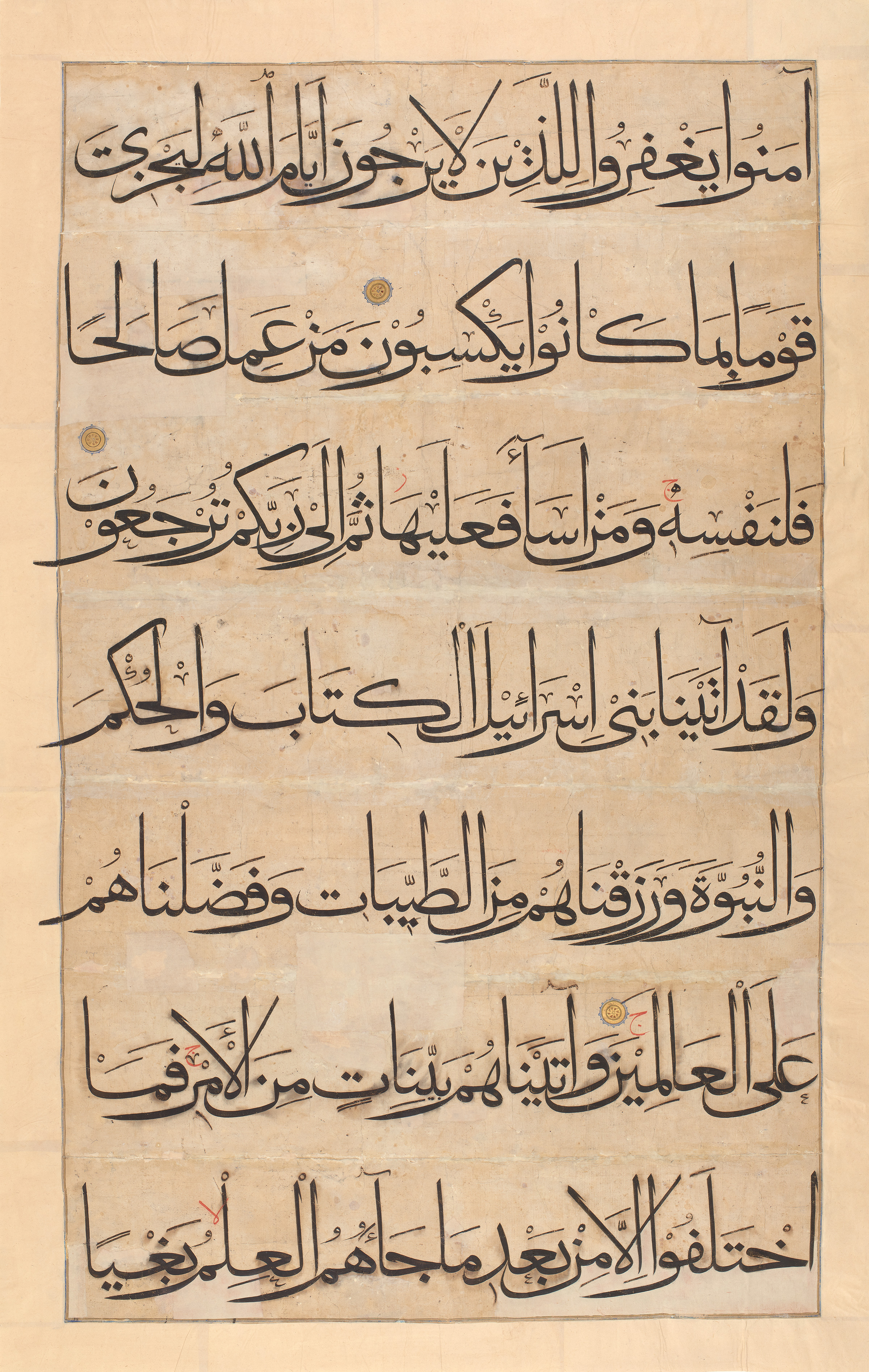 Art and History Trust Collection, Photo courtesy of the Freer Gallery of Art, Smithsonian Institution, Washington, D.C. Page from a Koran 'Umar-i Aqta' Iran, present-day Afghanistan, Timurid dynasty, circa 1400 Opaque watercolor, ink and gold on paper Muḥaqqaq script 170 x 109cm (66 15/16 x 42 15/16in.) Historical Region: Uzbekistan This first and the last verses are incomplete. The translation of all the verses in their complete form according to Muhsin Khan would be: Say, [O Muhammad], to those who have believed that they [should] forgive those who expect not the days of Allah so that He may recompense a people for what they used to earn. Whoever does a good deed - it is for himself; and whoever does evil - it is against the self. Then to your Lord you will be returned. And We did certainly give the Children of Israel the Scripture and judgement and prophethood, and We provided them with good things and preferred them over the worlds. And We gave them clear proofs of the matter [of religion]. And they did not differ except after knowledge had come to them - out of jealous animosity between themselves. Indeed, your Lord will judge between them on the Day of Resurrection concerning that over which they used to differ. (45:14-17)